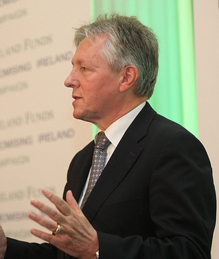 Peter Robinson at Titanic Belfast, 2012 during the visit of Hillary Clinton (Cropped version)